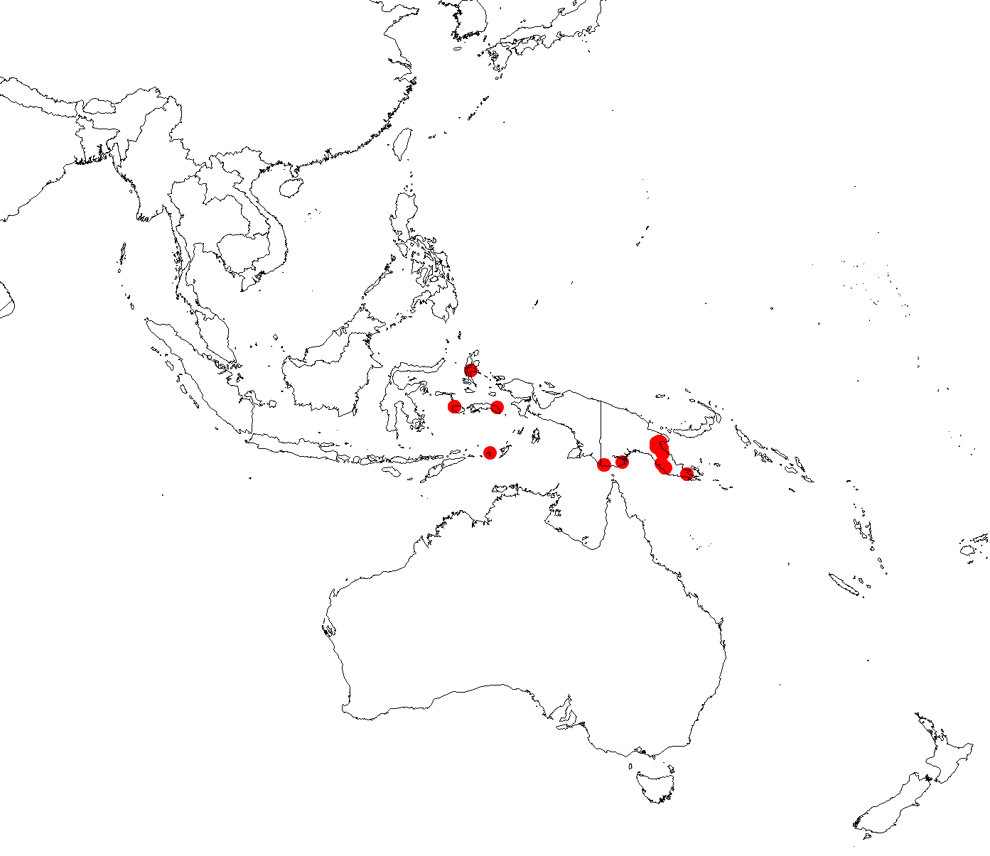 Parsonsia buruensis Occurrence data downloaded from (21 December 2018) GBIF Occurrence Download